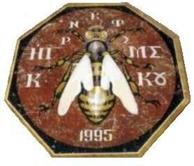 Symbol monastery Kykkos, Cyprus